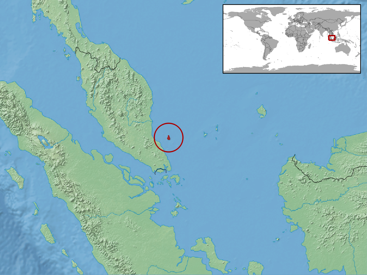 geographic distribution of Gongylosoma mukutense (Native: Malaysia (Peninsular Malaysia))